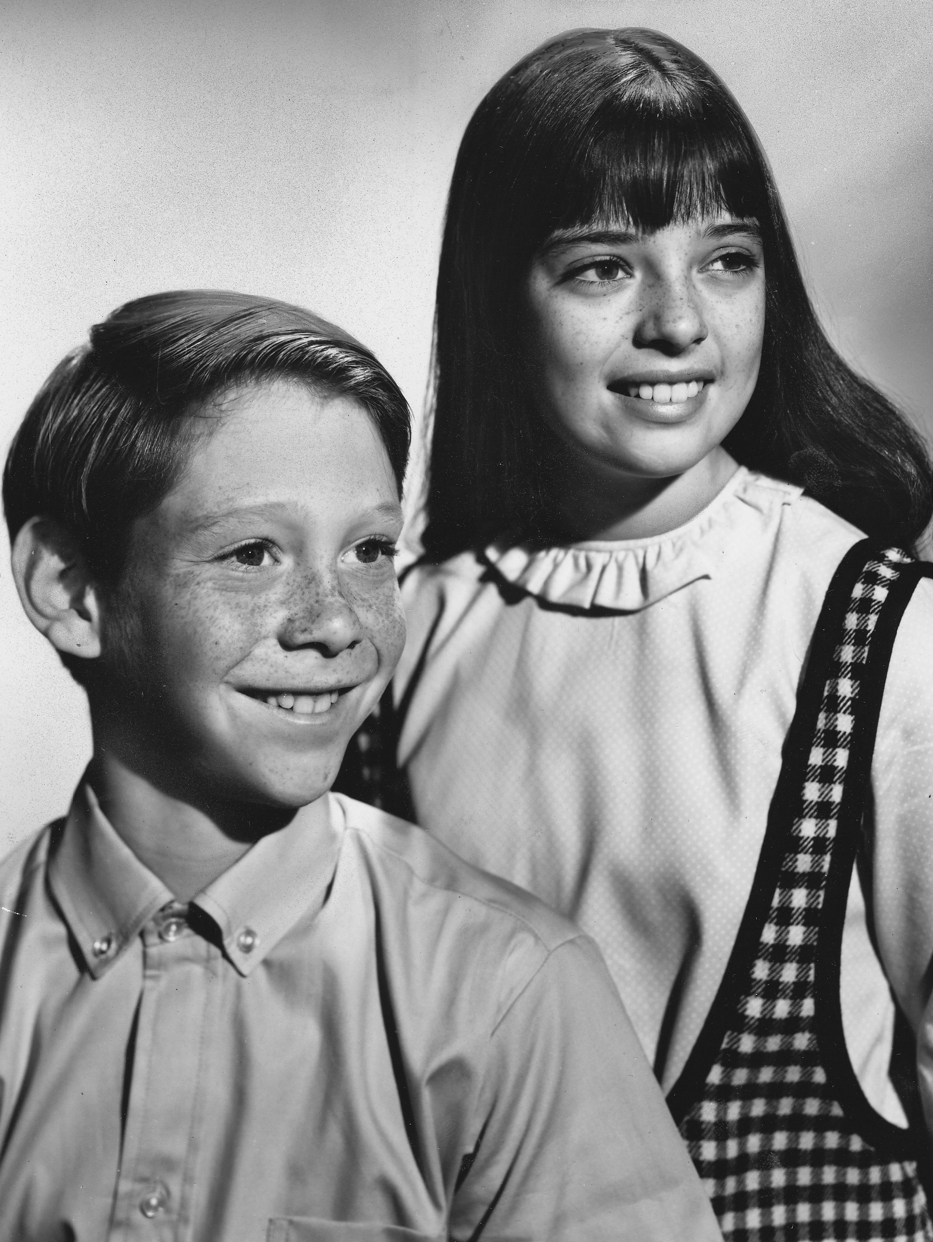 Publicity photo of American child actors, Billy Mumy and Angela Cartwright promoting their roles on the CBS television series Lost in Space.